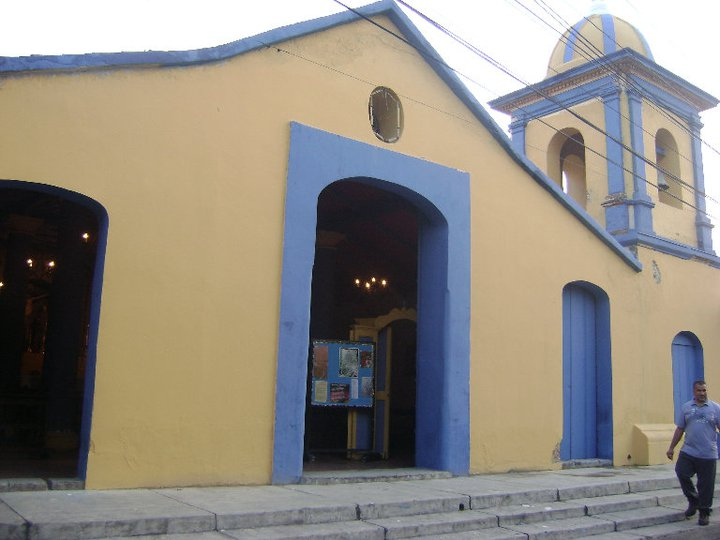 María Magdalena Church